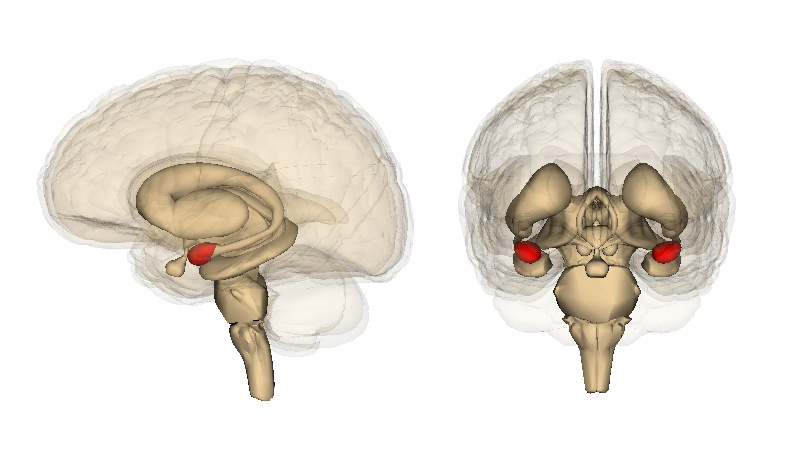 amygdala. Images are from Anatomography maintained by Life Science Databases(LSDB).